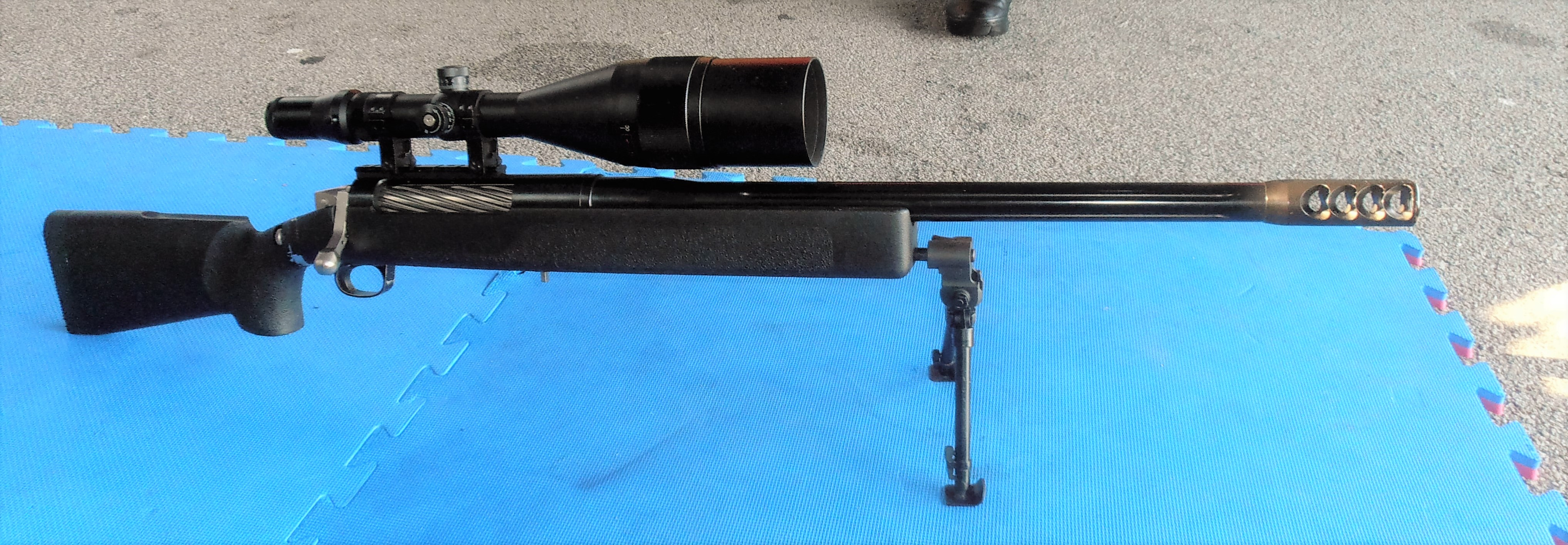 The Robar RC-50 sniper rifle on display during 82nd Anniversaries of Royal Malaysian Navy. The RC-50 can be fired with 12.7x99mm NATO.